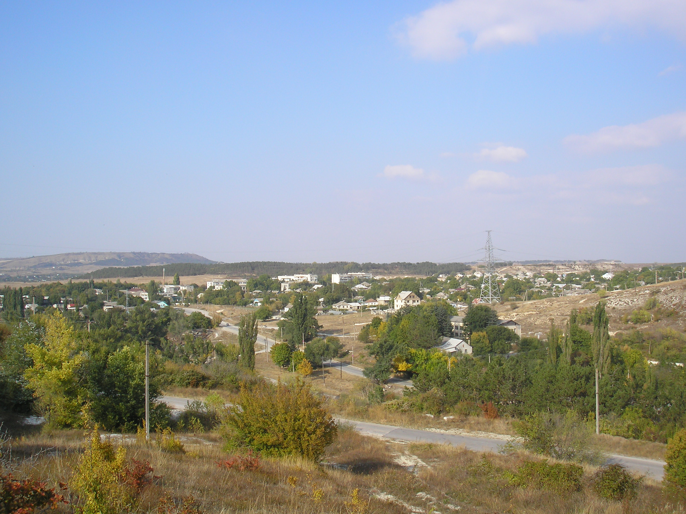 Village Skalistoe, Bakhchisaray district, Crimea